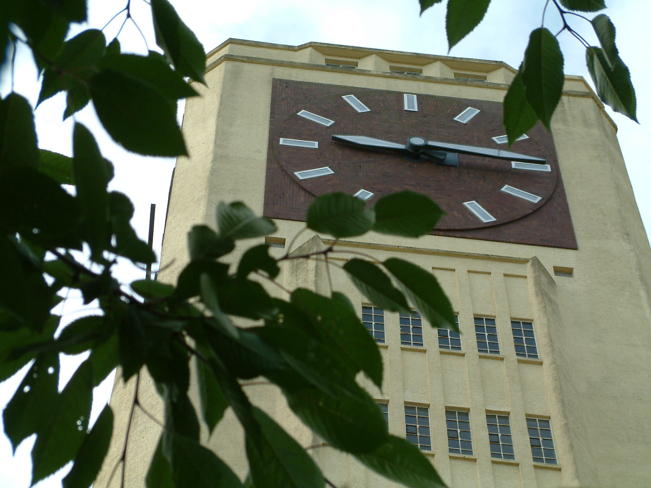 Clock tower of the former Sewing machine factory in Wittenberge, Brandenburg, Germany